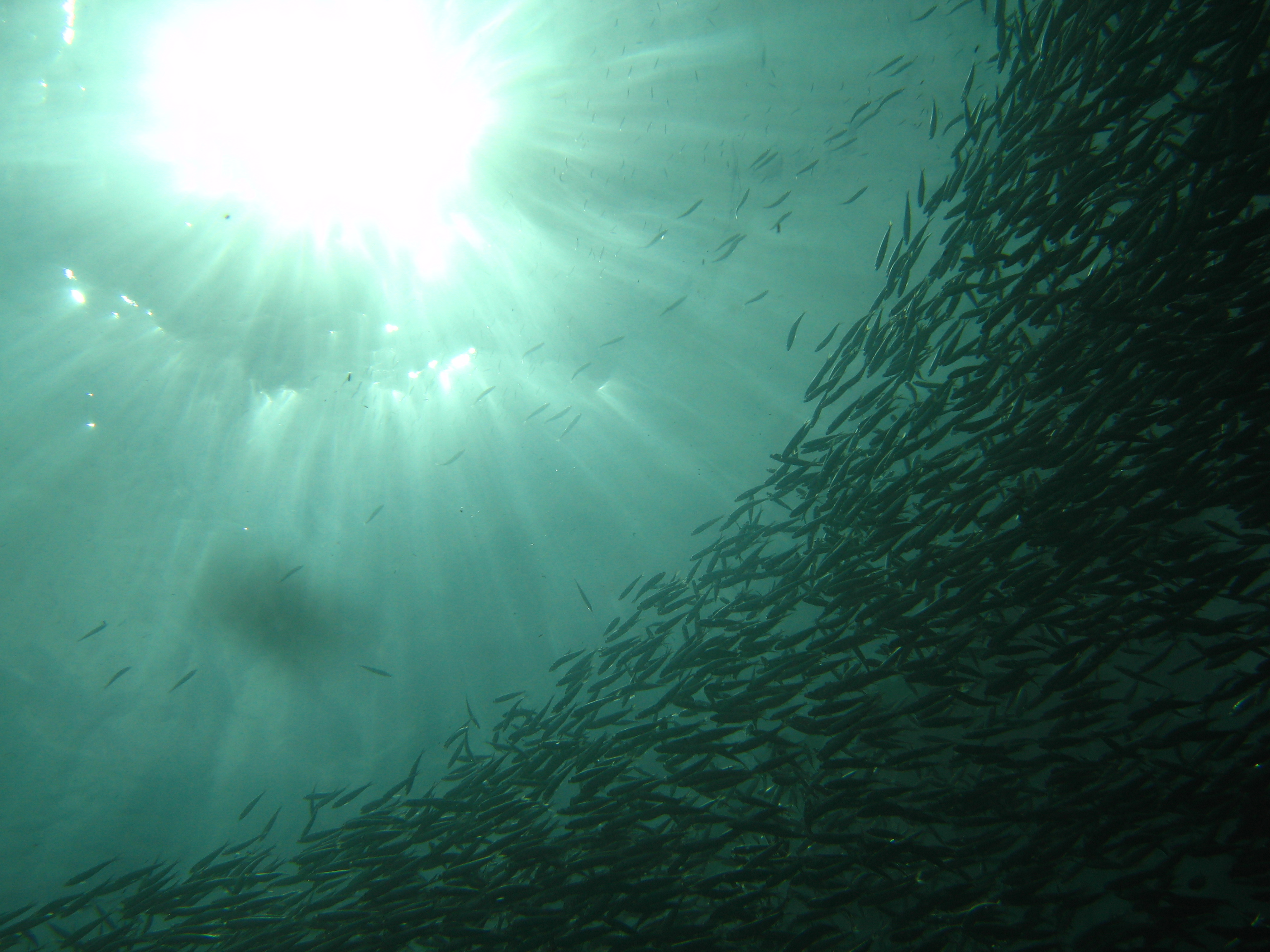 School of Sardines @ Mactan Cebu, Philippines